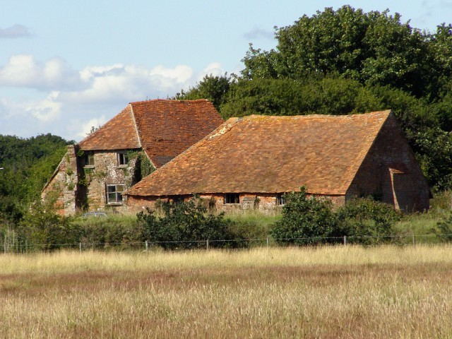 Eighteenth century sea salt boiling houses, Woodside Looking across a marshy field towards this pair of 18th century buildings at Creek Cottage, Woodside near Lower Pennington. These are probably the only unaltered remains of eighteenth century sea salt boiling industry in Britain.